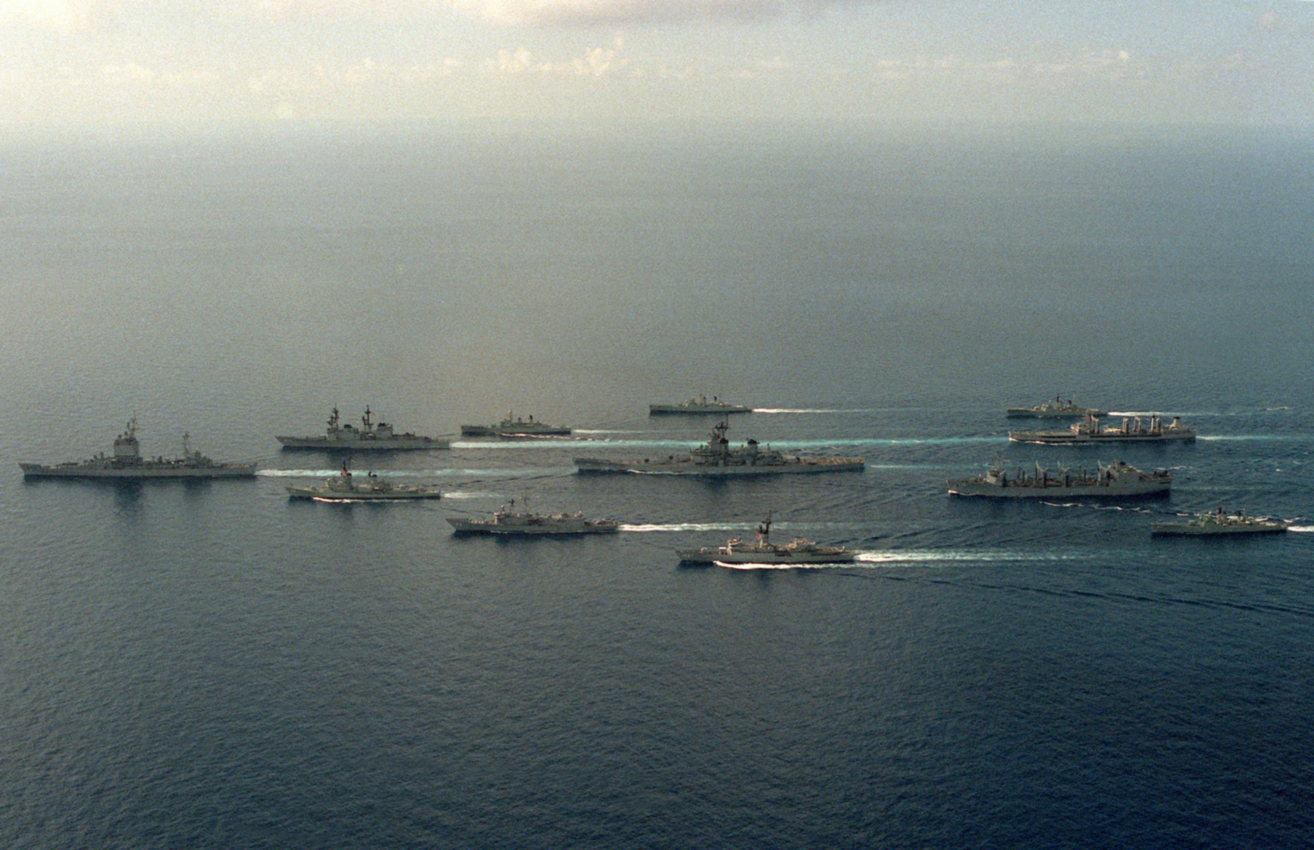 An aerial view of the first U.S. Navy battleship battle group to deploy to the Western Pacific since the Korean War underway with Australian ships during a training exercise. The ships are, clockwise from left: USS Long Beach (CGN-9), USS Merrill (DD-976), HMAS Swan (DE 50), HMAS Stuart (DE 48), HMAS Parramatta (DE 46), USNS Passumpsic (T-AO-107), USS Wabash (AOR-5), HMAS Derwent (DE 49), USS Kirk (FF-1087), USS Thach (FFG-43), HMAS Hobart (D 39) and USS New Jersey (BB-62), center.